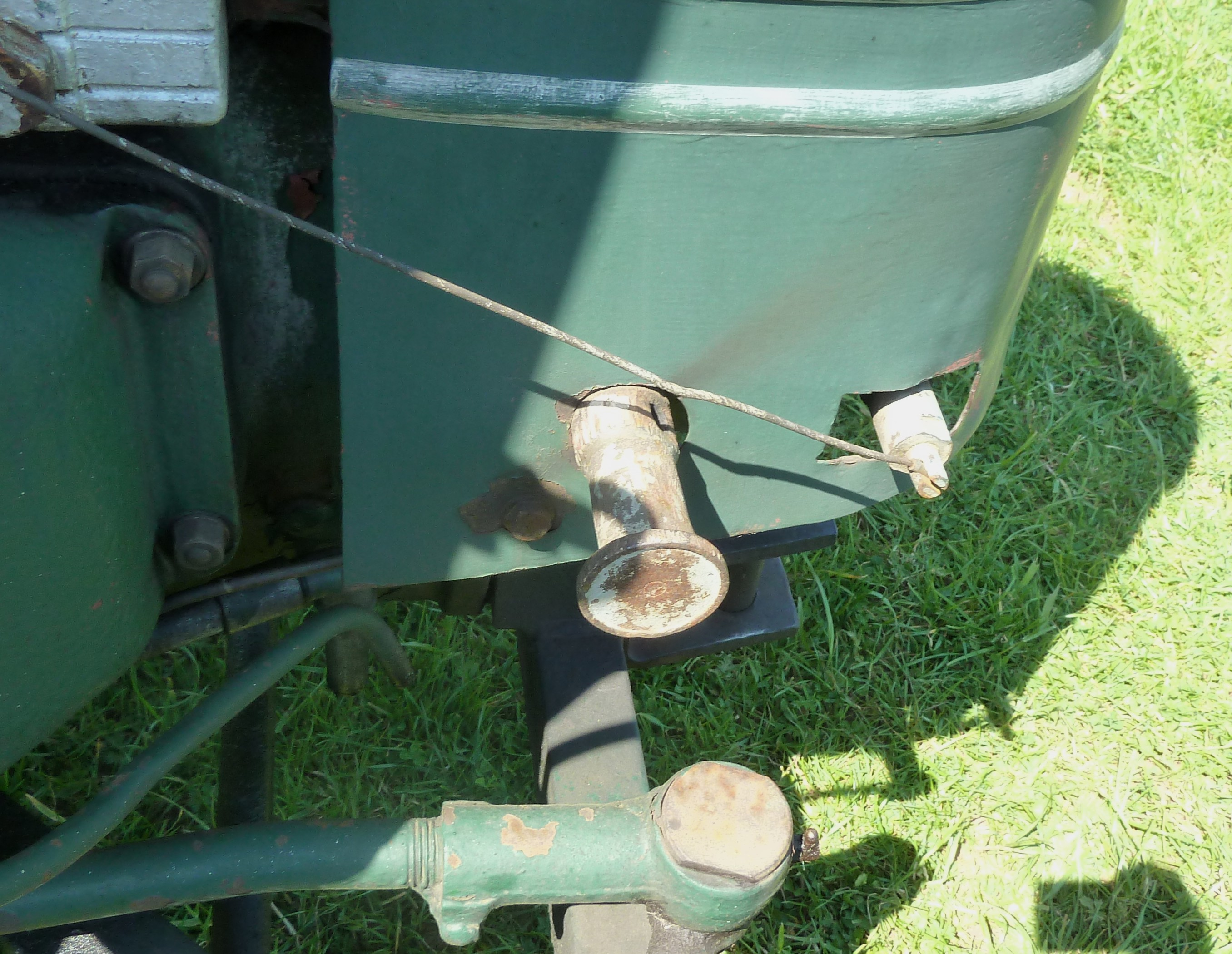 Field-Marshall diesel tractor The breech fitting (centre) holds a starting cartridge. Cophill Farm vintage rally, near Chepstow, 2012.